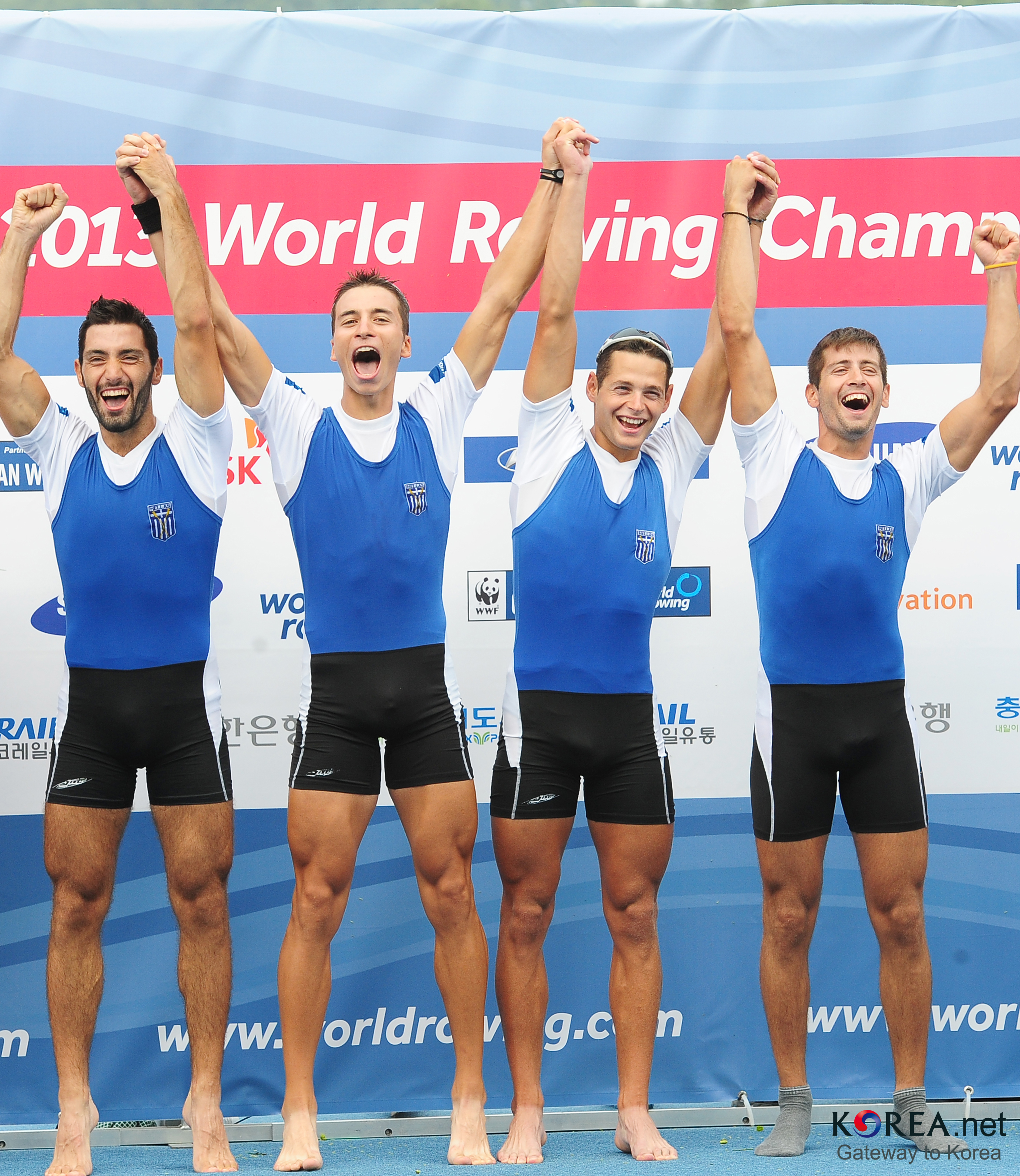 2013 Chungju World Rowing Championships